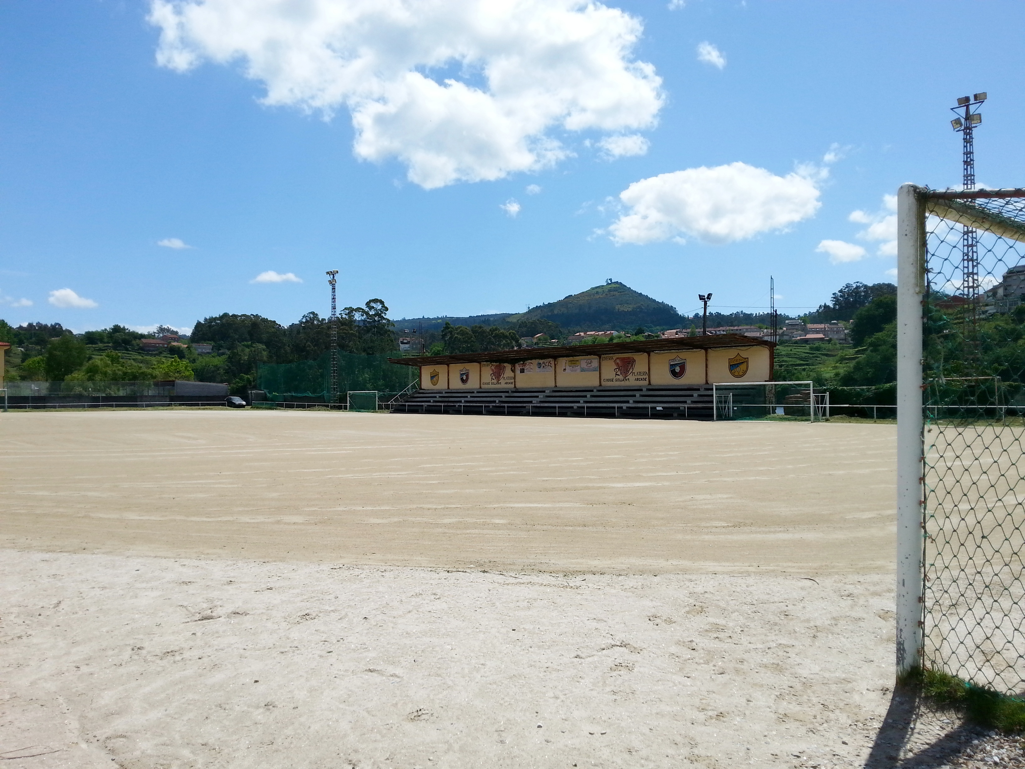 See title.